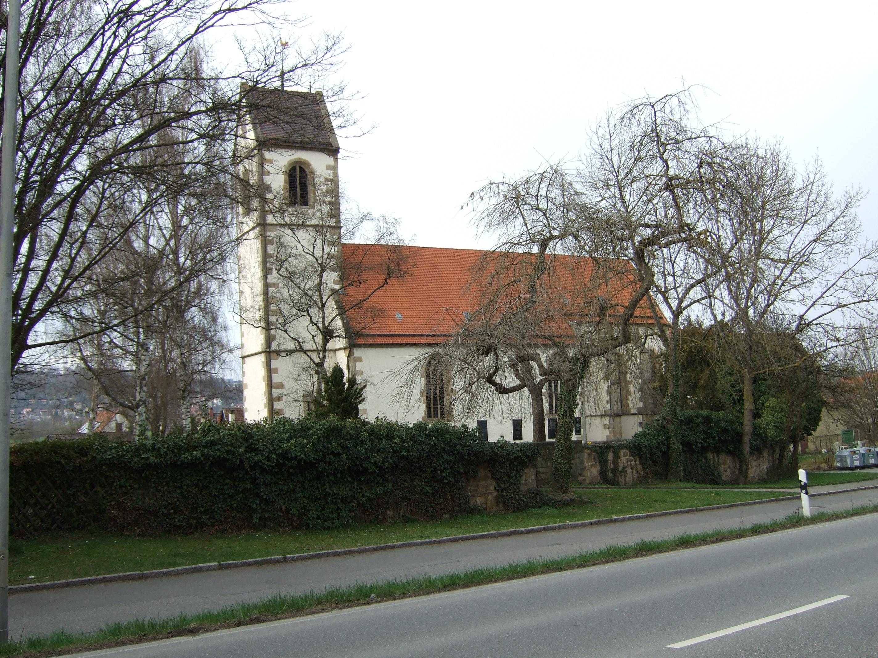 St. Gallus Church in Tübingen-Derendingen